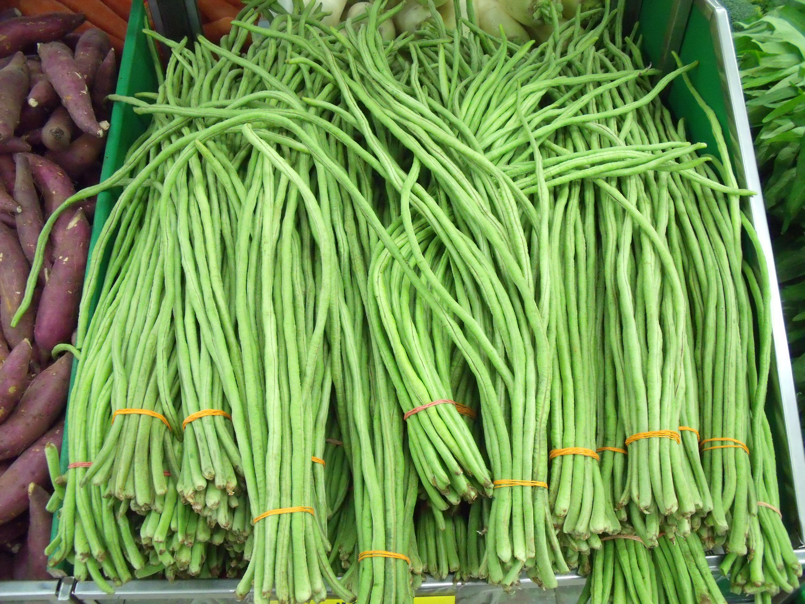 A basket of long beans displayed in a Singapore supermarket